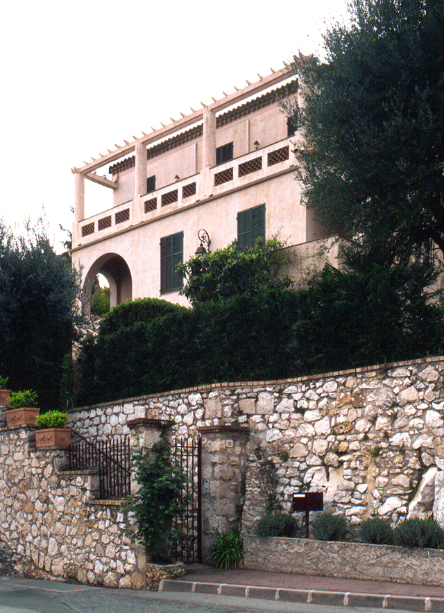 en: Residence Villa Primavera of Han van Meegeren 1932 - 1938 in Roquebrune-Cap-Martin, Avenue des Cyprès 10, France. Han van Meegeren lived here in the years 1932 - 1938. In the Villa Primavera he painted his forgery "The Supper at Emmaus". de: Han van Meegeren mietete in den Jahren 1932 – 1936 diese Villa Primavera in Roquebrune-Cap-Martin, Avenue des Cyprès 10, Frankreich. Hier malte er die Vermeer-Fälschung "Christus und die Jünger in Emmaus".